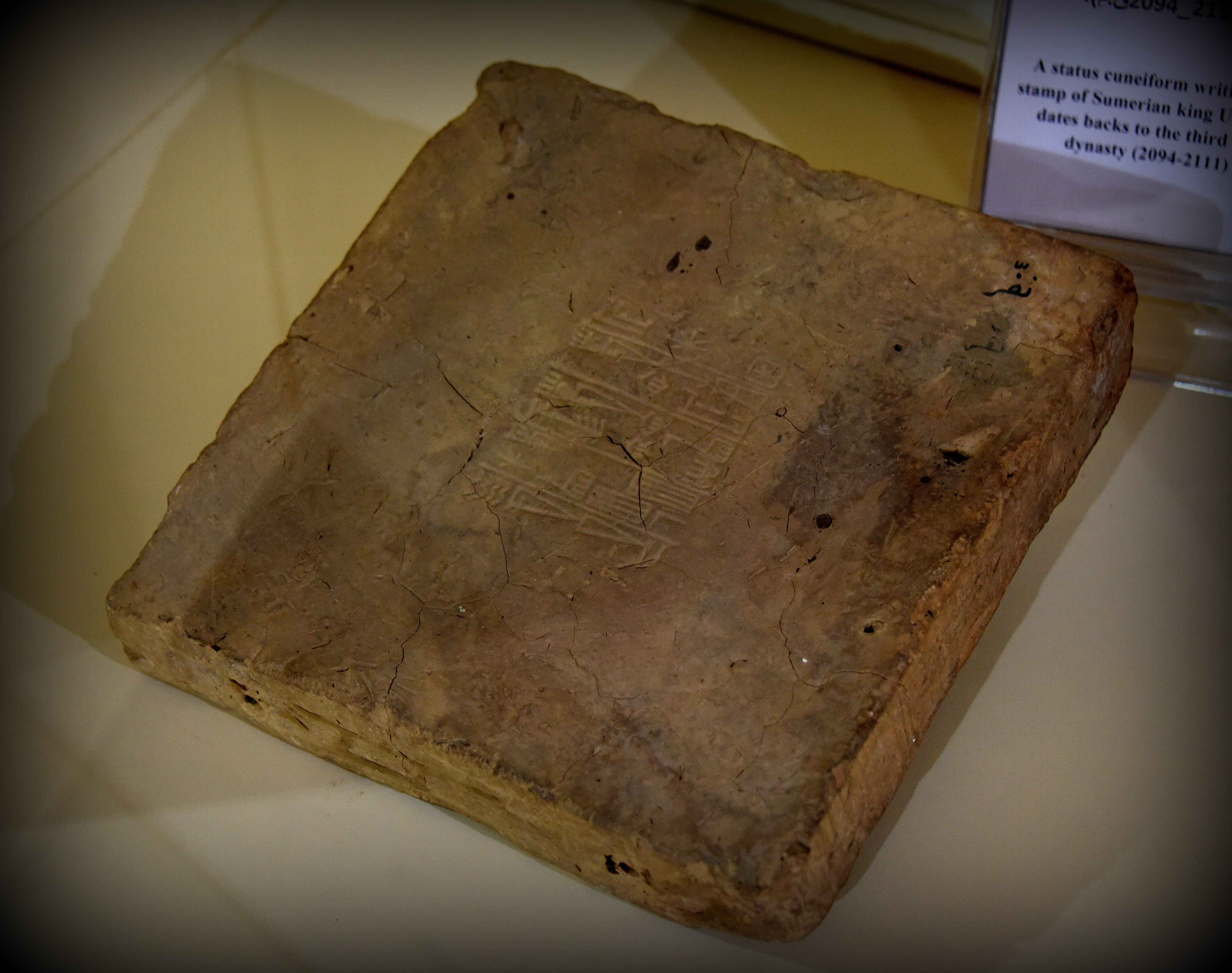 Mud-brick stamped with the name of king Ur-Nammu. Using a marker pen, Nippur was written in Arabic at one of the corners; therefore, this brick might well have been found in Nippur. Neo-Sumerian Period. Erbil Civilization Museum, Iraqi Kurdistan.